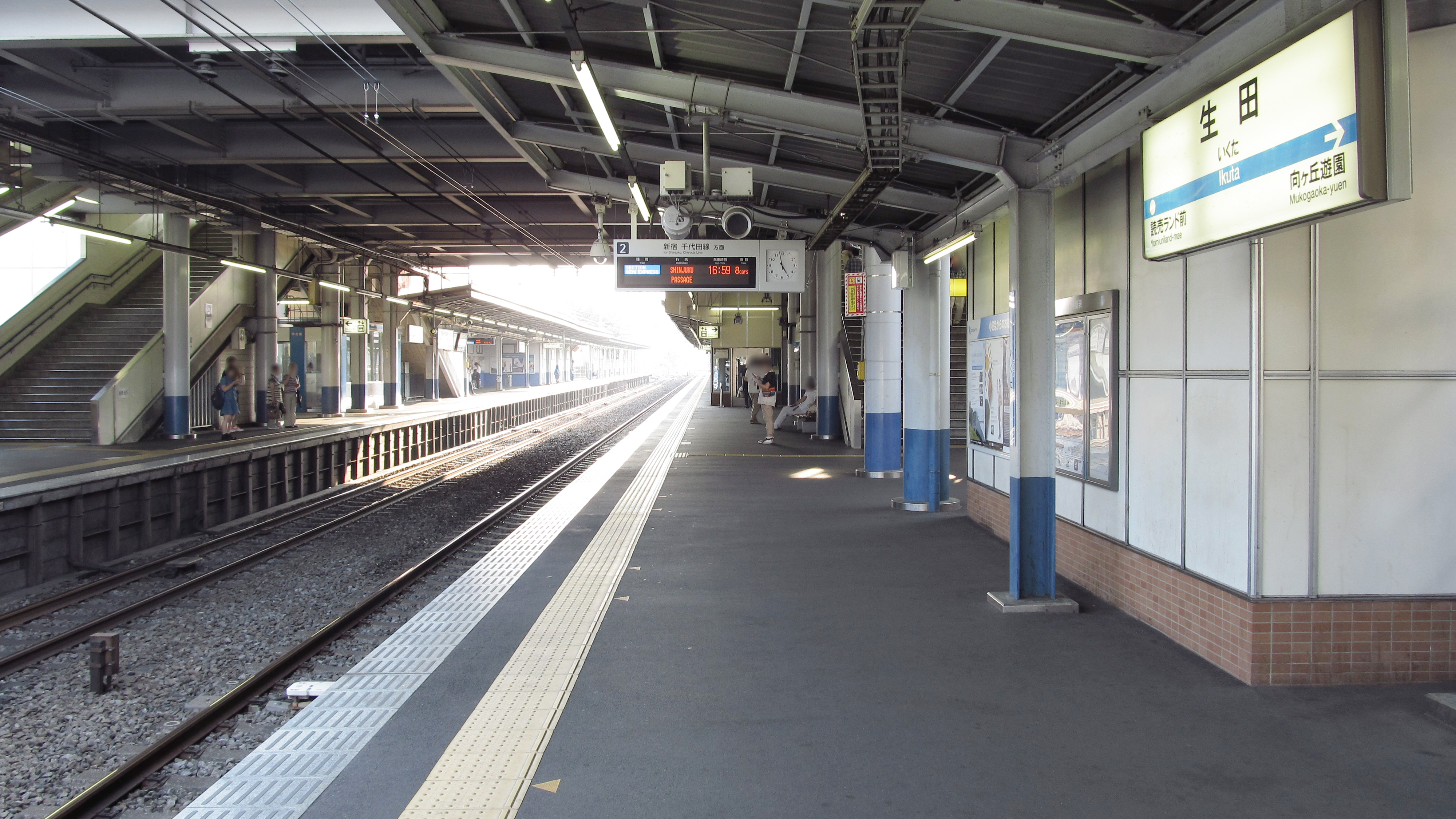 The platforms at Ikuta Station on the Odakyū Electric Railway Odawara Line in Tama ward, Kawasaki city, Kanagawa, Japan